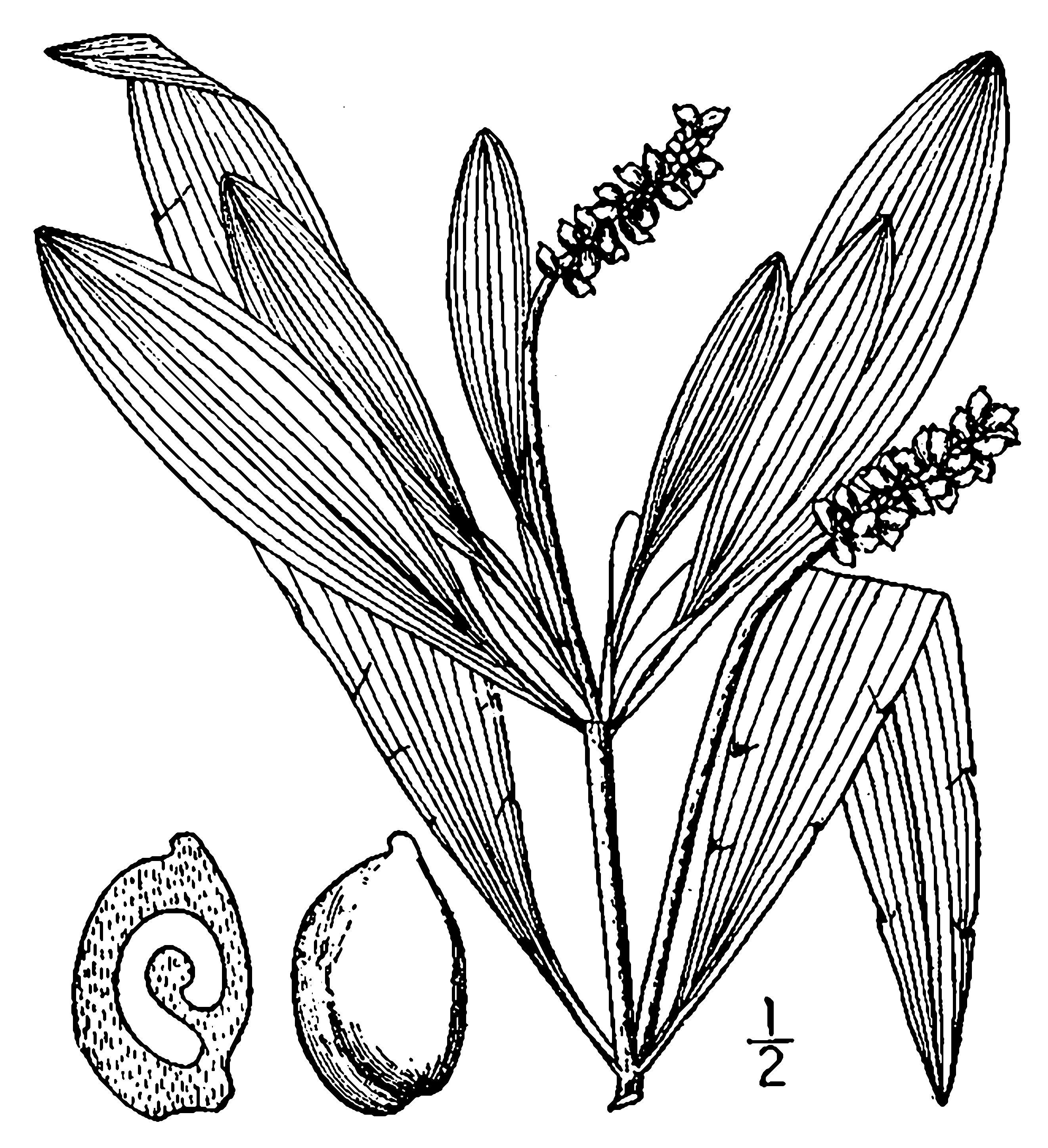 Potamogeton alpinus Balbis - alpine pondweed POAL8. From: Britton, N.L., and A. Brown. 1913. An illustrated flora of the northern United States, Canada and the British Possessions. Vol. 1: 77.